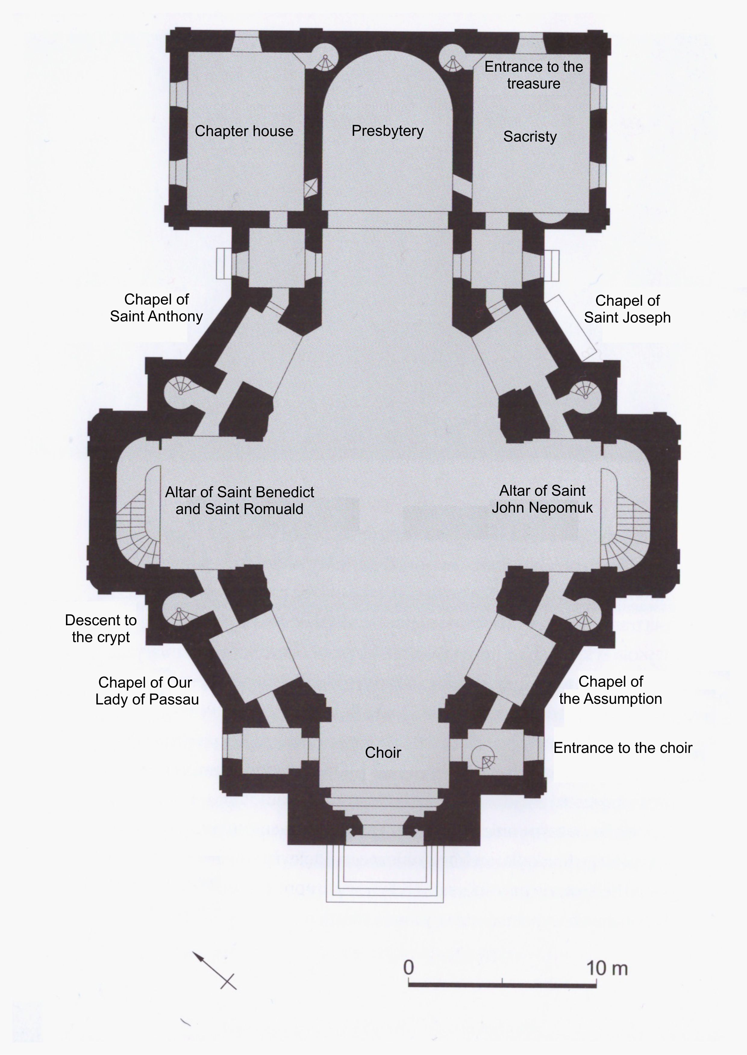 Plan of the Church of Camaldoleses in Warsaw